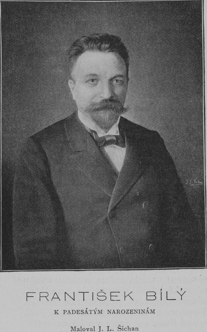 Portrait of František Bílý (1854 - 1920), Czech literary historian. Painted on occasion of his 50th birthday.